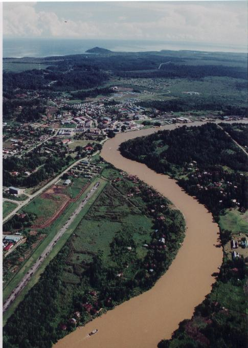 Aerial View of Lawas Town, airport and river.